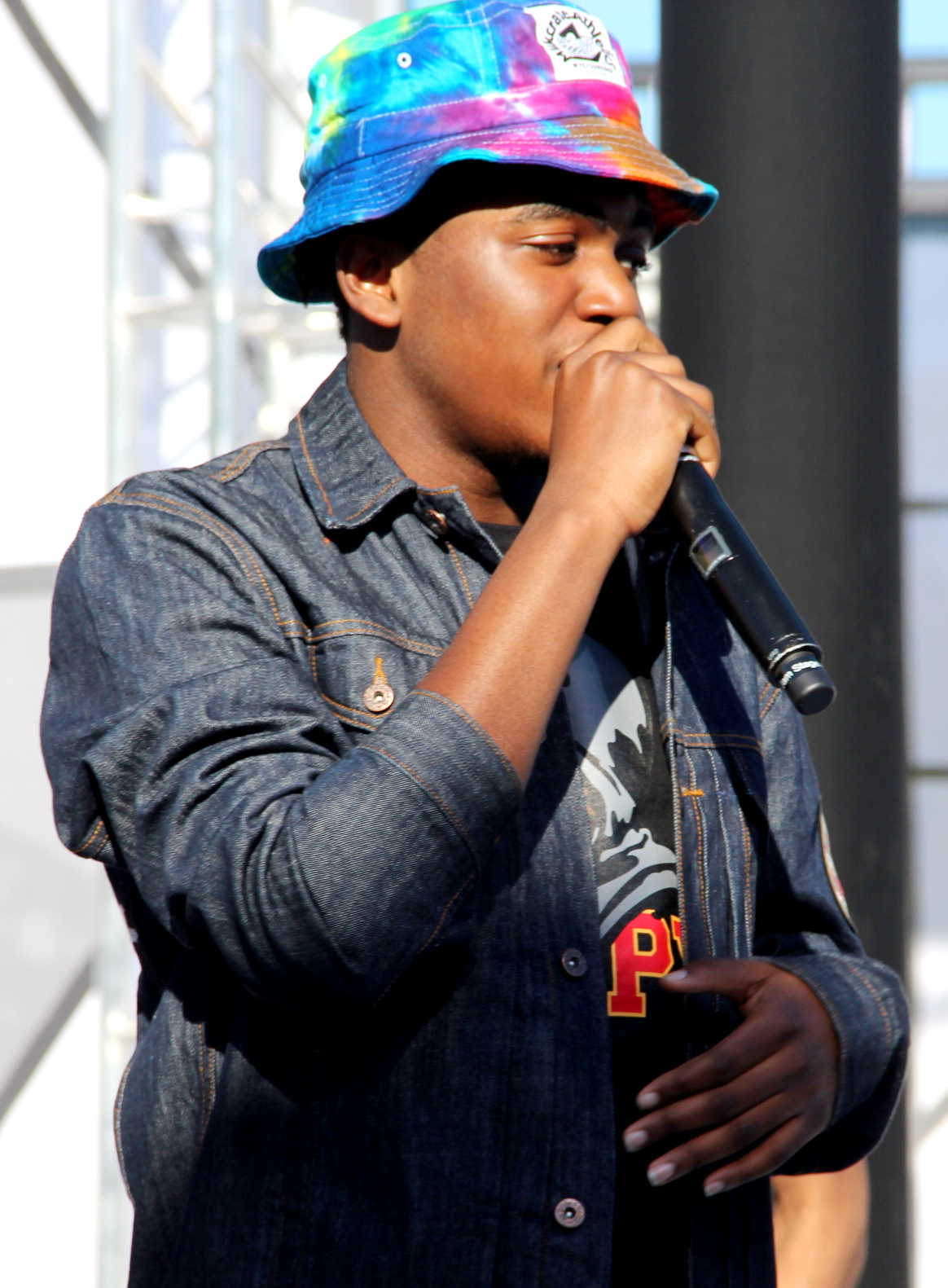 Kirk Knight performing in 2013.